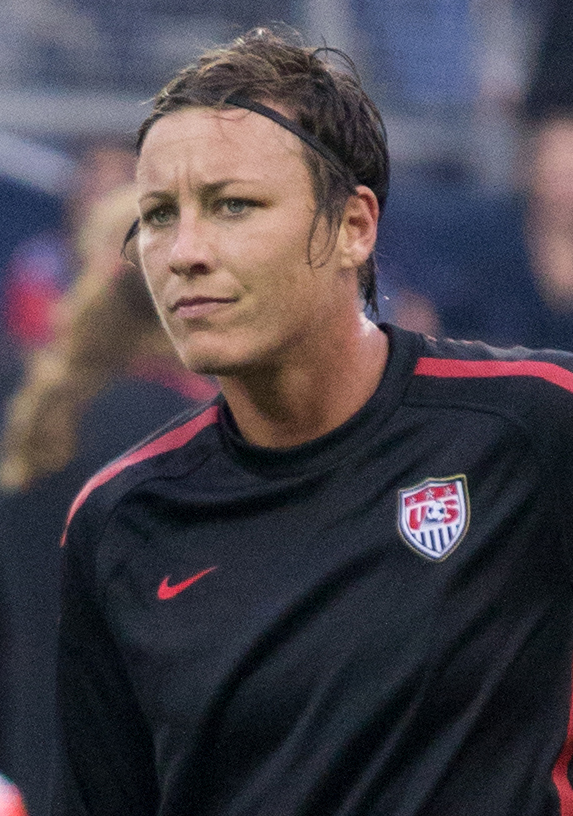 Abby Wambach of the United States Women's National Soccer team warming up prior to a friendly match against Canada on September 17th, 2011.